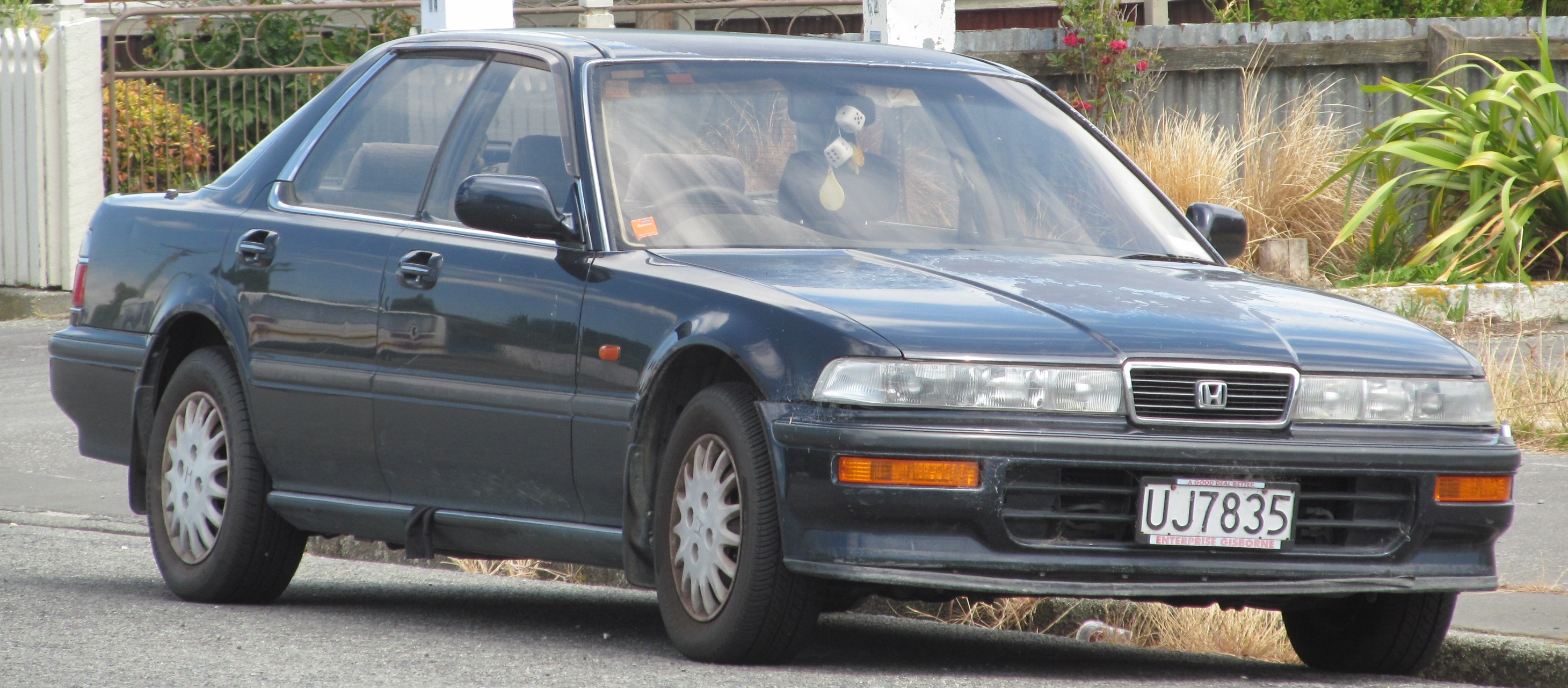 1991 Honda Vigor (Japanese specification) in Tinwald, New Zealand.